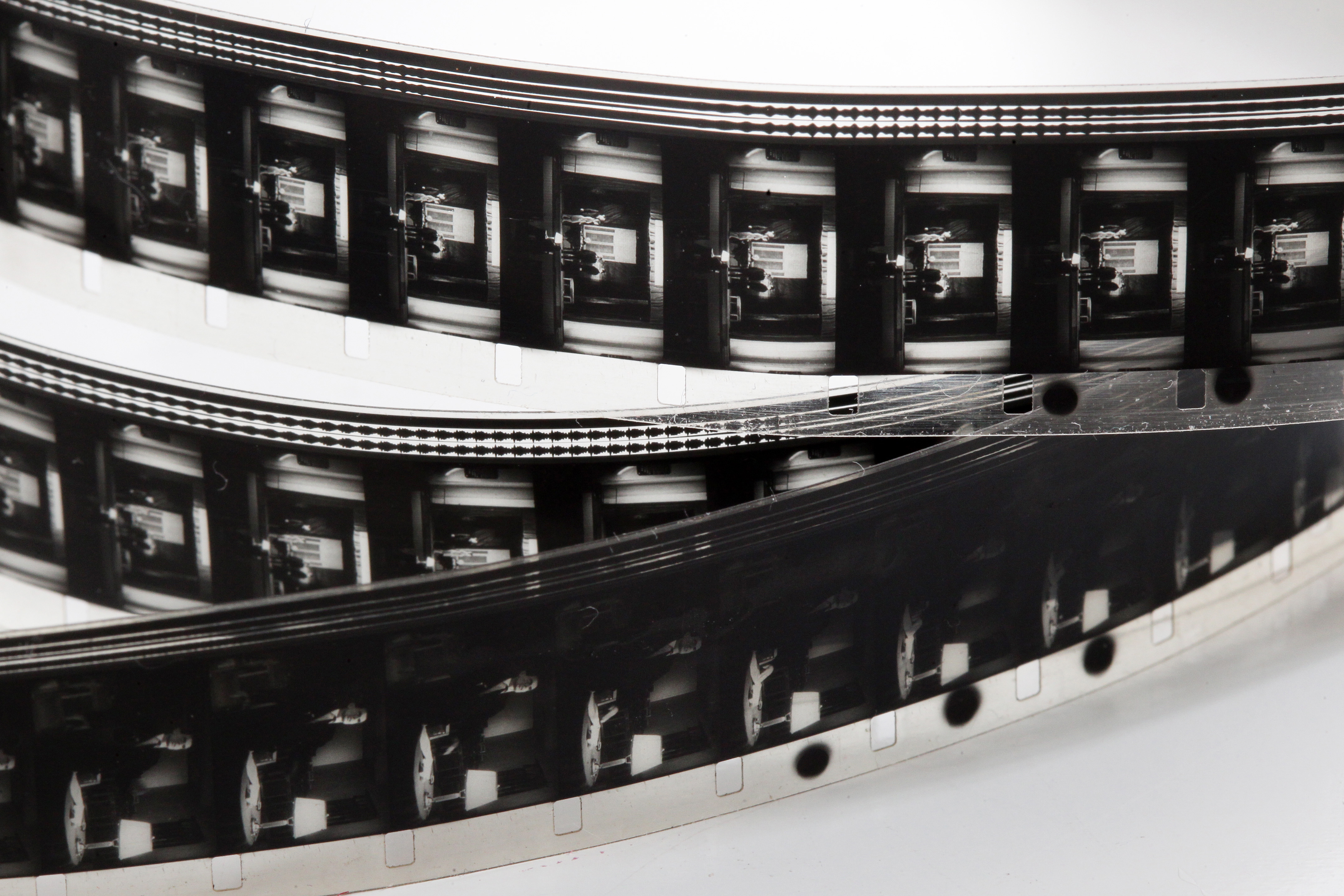 16-mm b&w sound film copy.